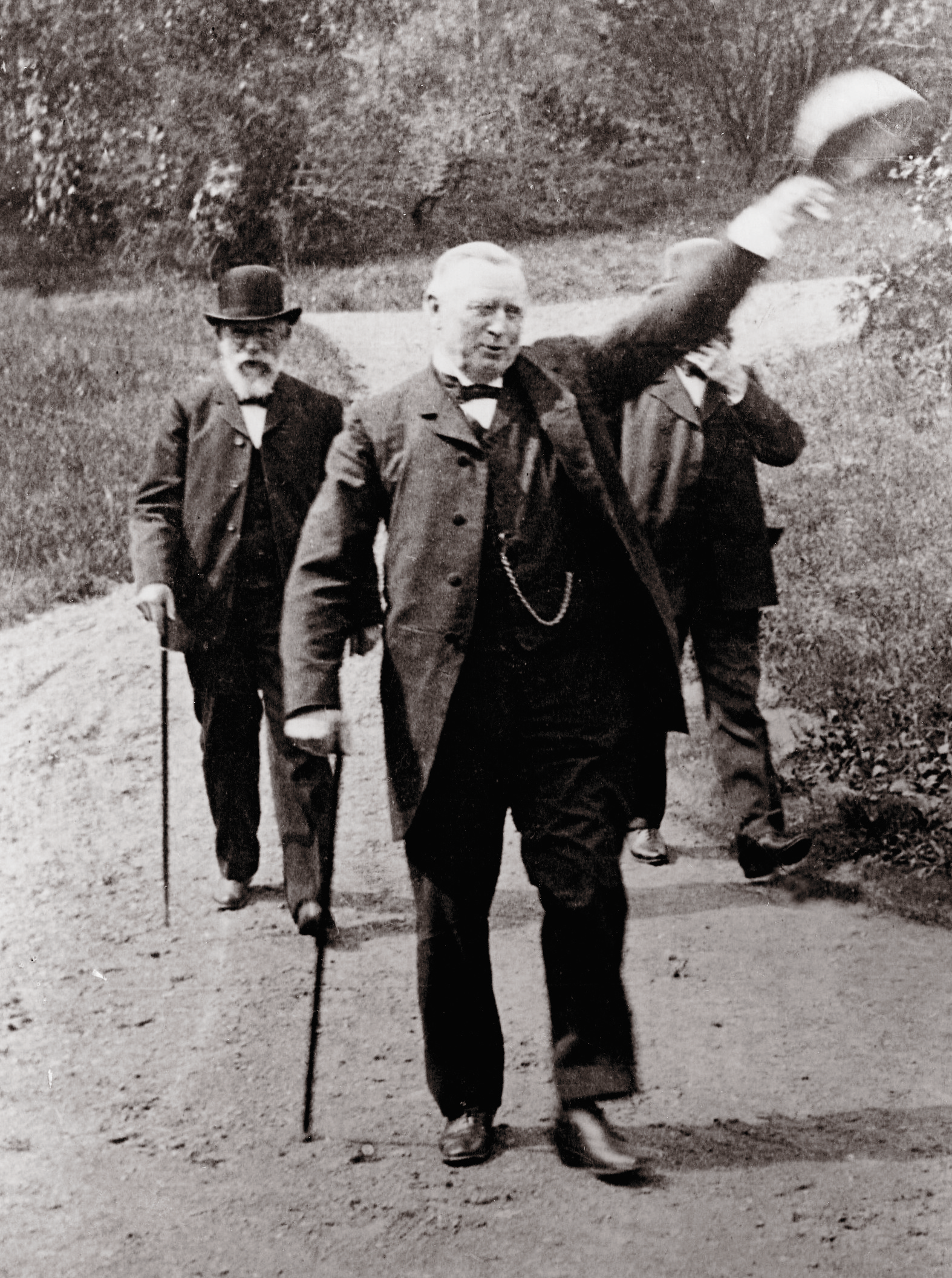 Hans Mustad was well liked